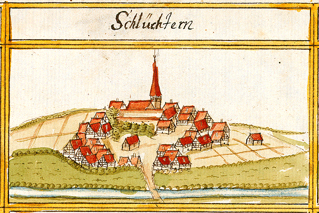 View of Schluchtern, Leingarten, from the forest register books created by Andreas Kieser